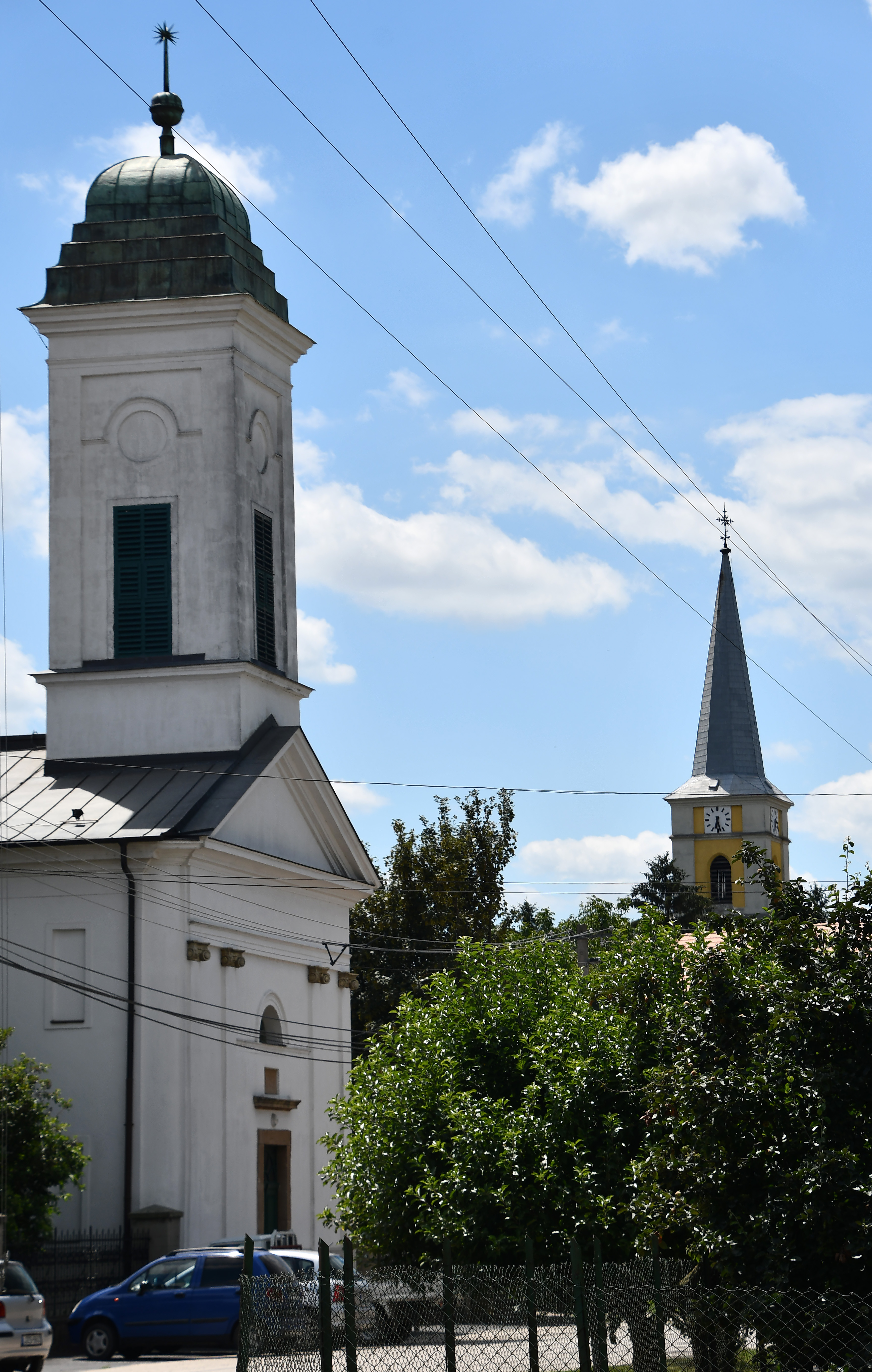 The Reformed church in Sárbogárd, Fejér County, Hungary